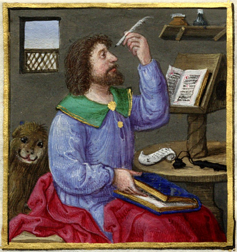 Probably an evangelist with a lion, indicating that this is Mark, the presumed author of Mark’s Gospel.